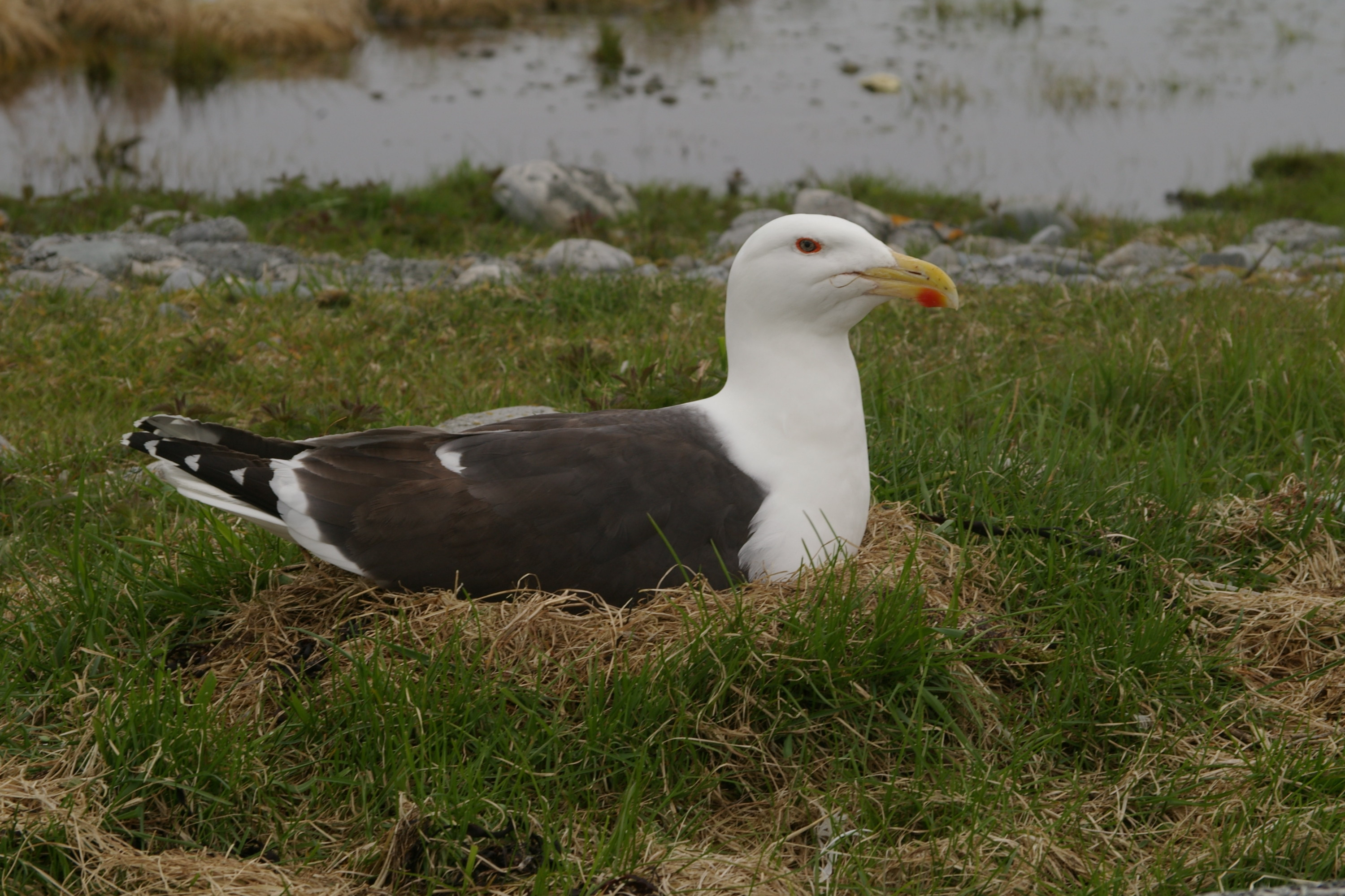 Larus marinus breeding on it's nest.